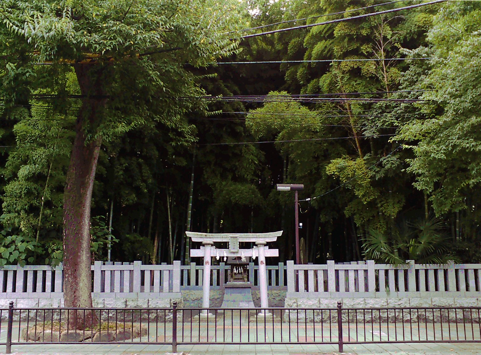 Forbidden forest Yawata no Yabushirazu in Ichikawa City, Chiba Prefecture, Japan